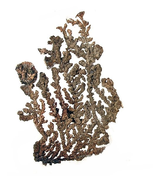 Luanheite Locality: Elisa de Bordos deposit, Pabellón, Copiapó Province, Atacama Region, Chile (Locality at ) From Ed's own catalogue entrey, this one took me by surprise!: Large crystallized dendritic fan * * Elisa de Bordos Mine near Copiapo * * * Chile * * May 25 2001 * Ed Huskinson * Found 1985 by Matthias Jurgeit ;said to be the finest ever found! 10.7 x 7.5 x 0.7 cm